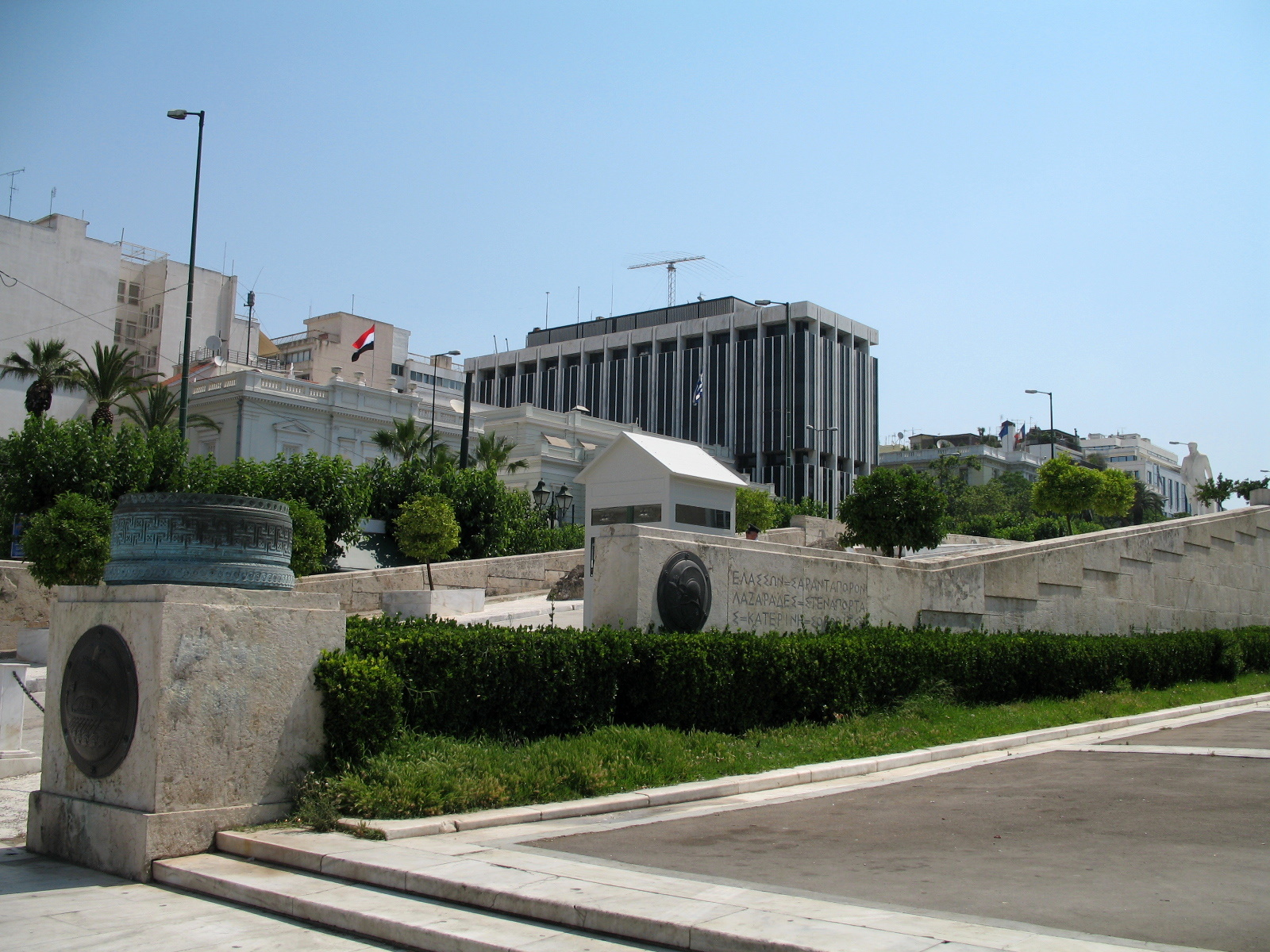 Egyptian embassy in Athens